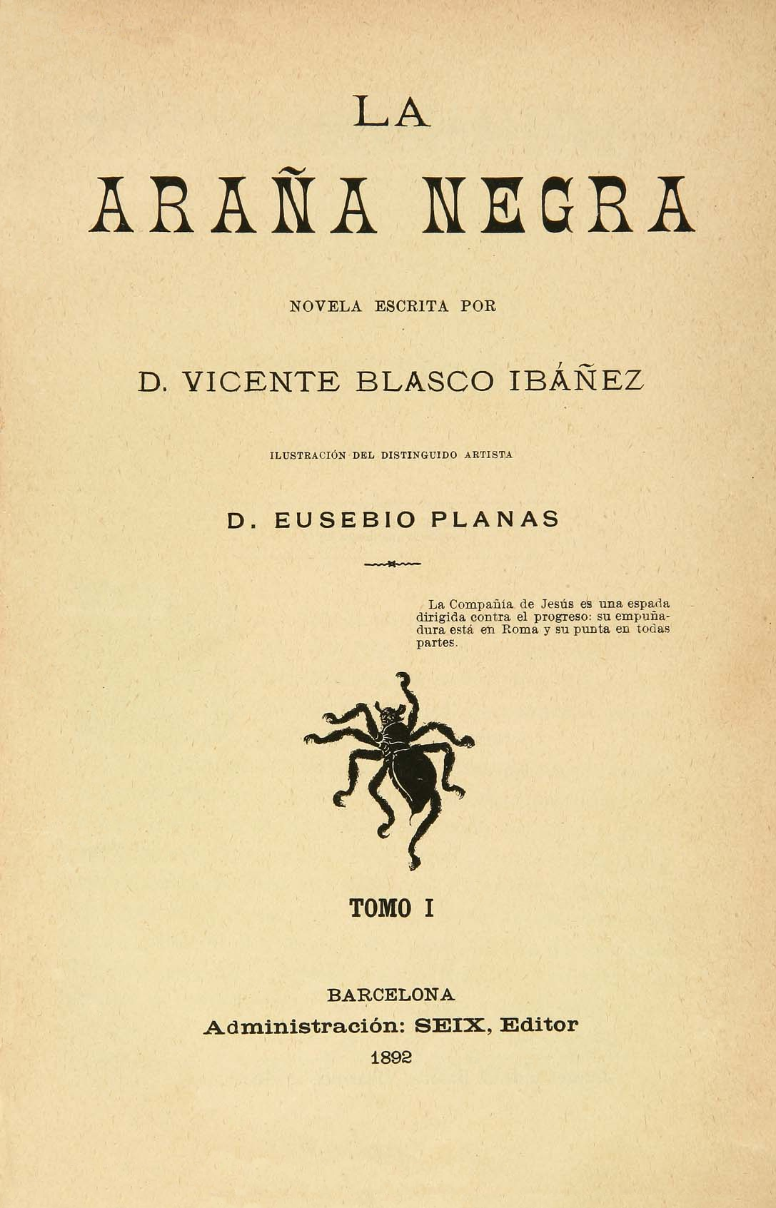 Title page of volume I of the book "La araña negra". Vicente Blasco Ibáñez, published in 1892.